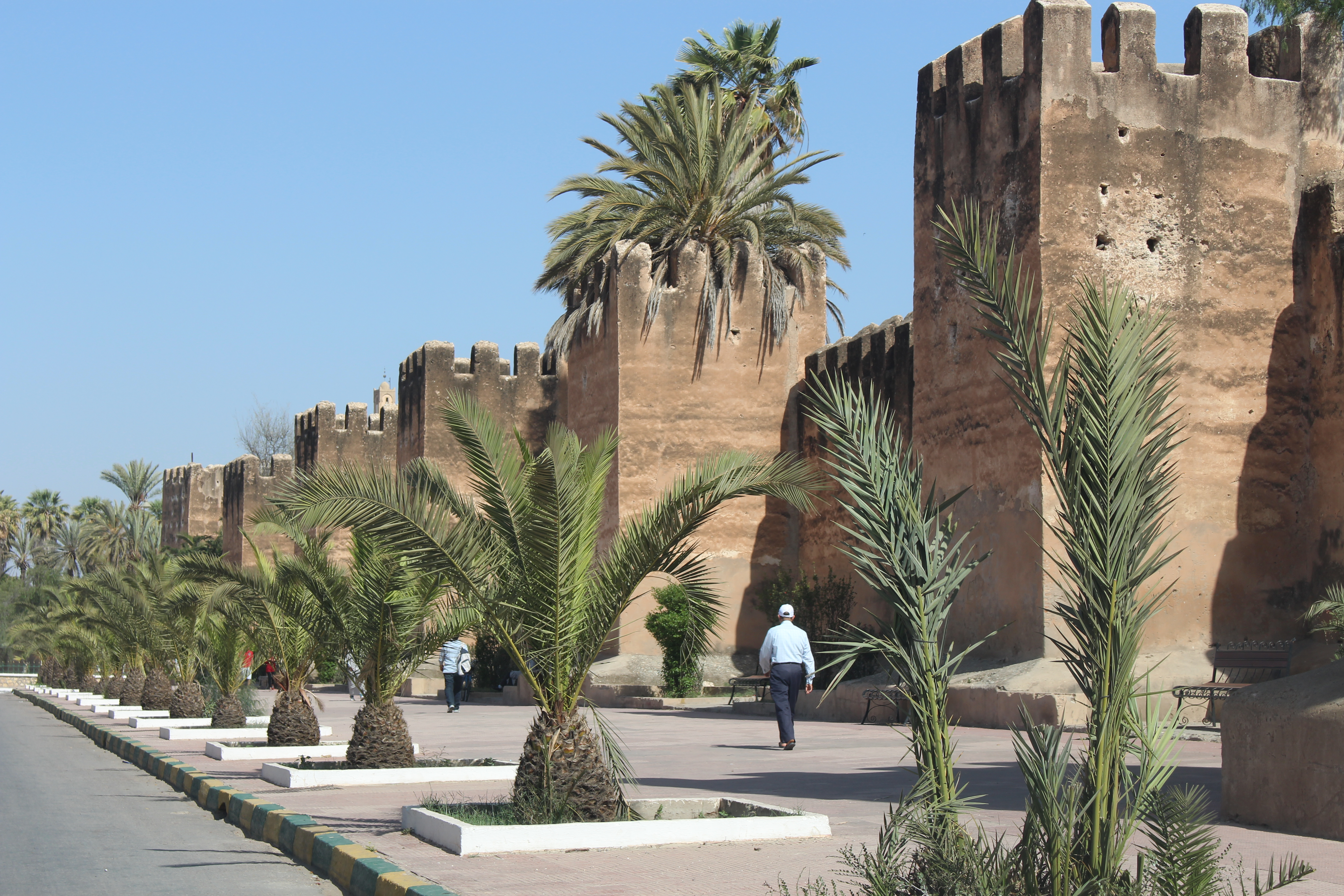 Taroudant walls, the picture was token on May 2016